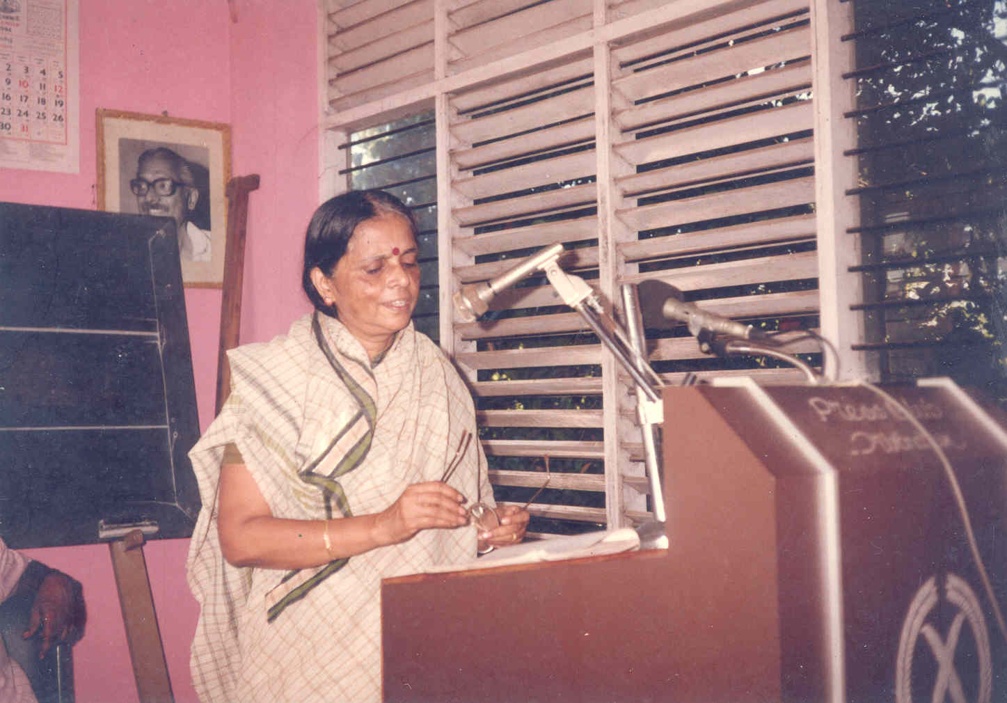 malayalam poet sugatha kumari giving her talk on the occasion of fokkana award distribution to ramesan blathur at thiruvananthapuram on 1994